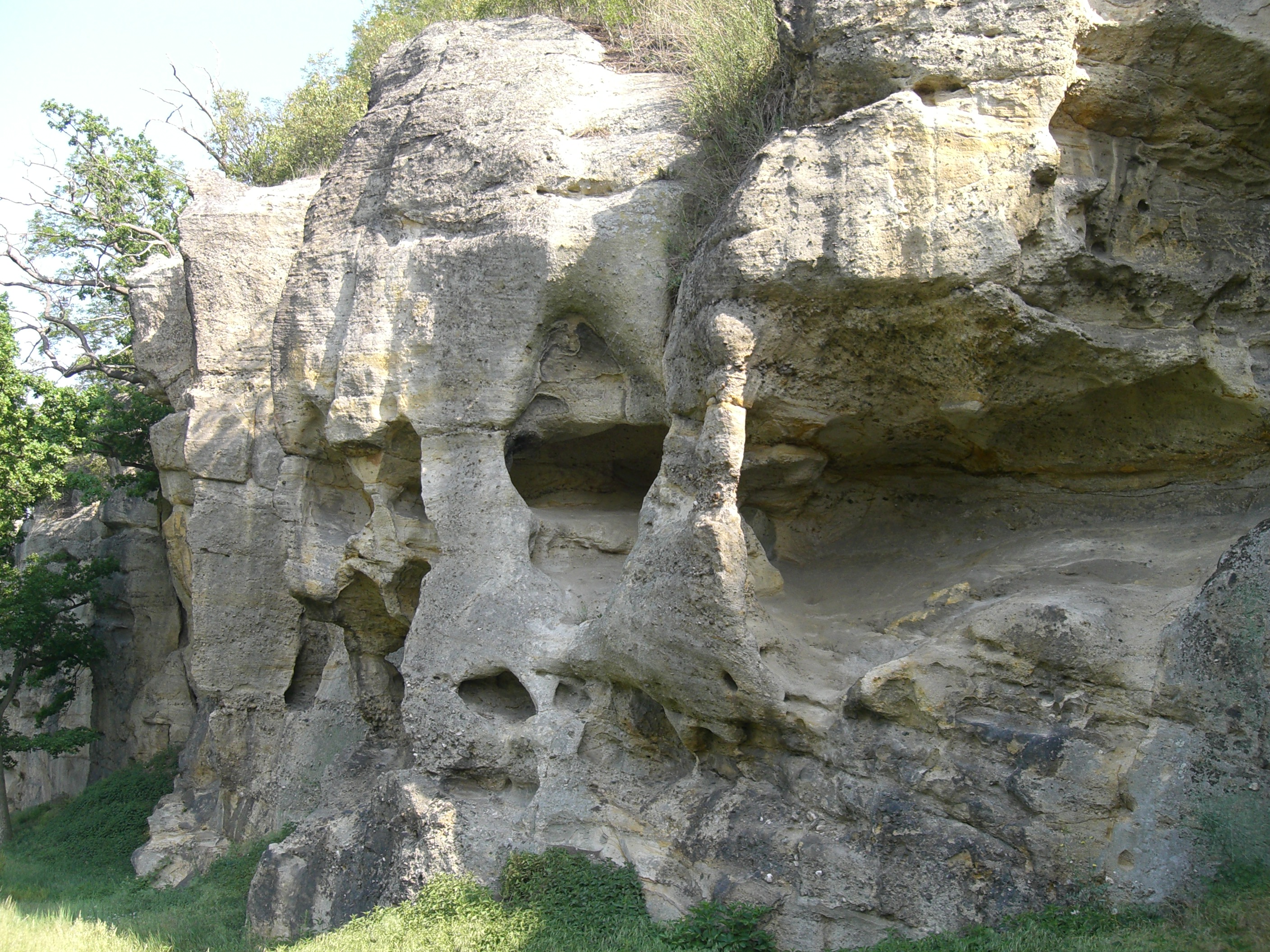 Nature reservation Čertova kazatelna near Plzeň, Czech Republic.